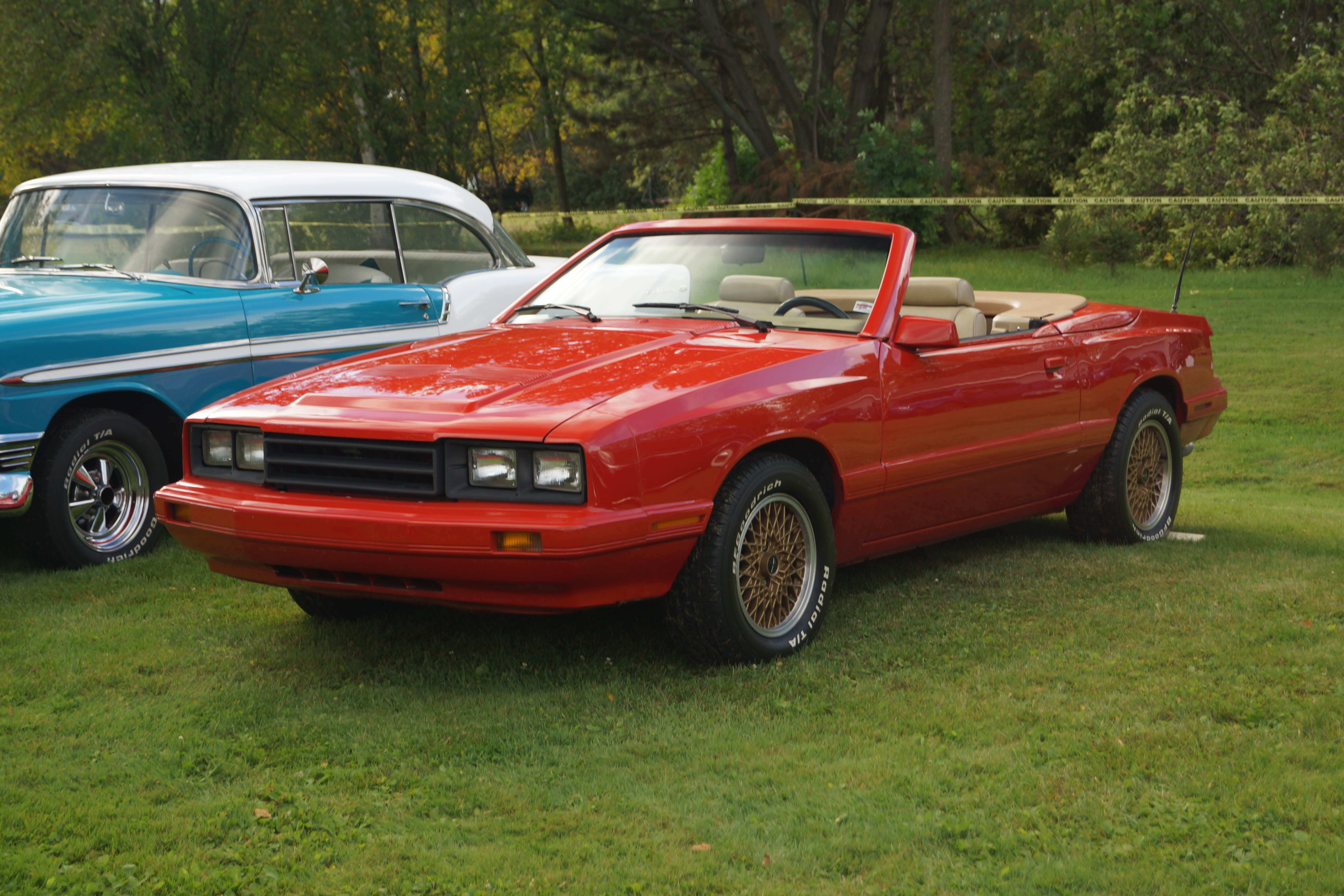 30th Annual Pig Roast & Car Show Northern Lights Car Club Blacksmith Lounge Hugo, Minnesota September 2017 ******** Click here for more car pictures at my Flickr site. Or here for my Car Crazy Tumblr site. Or on Twitter @DVS1mn.